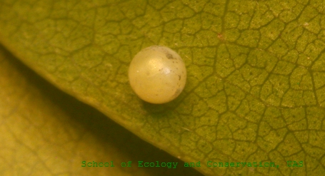 Common jay Graphium sarpedon egg